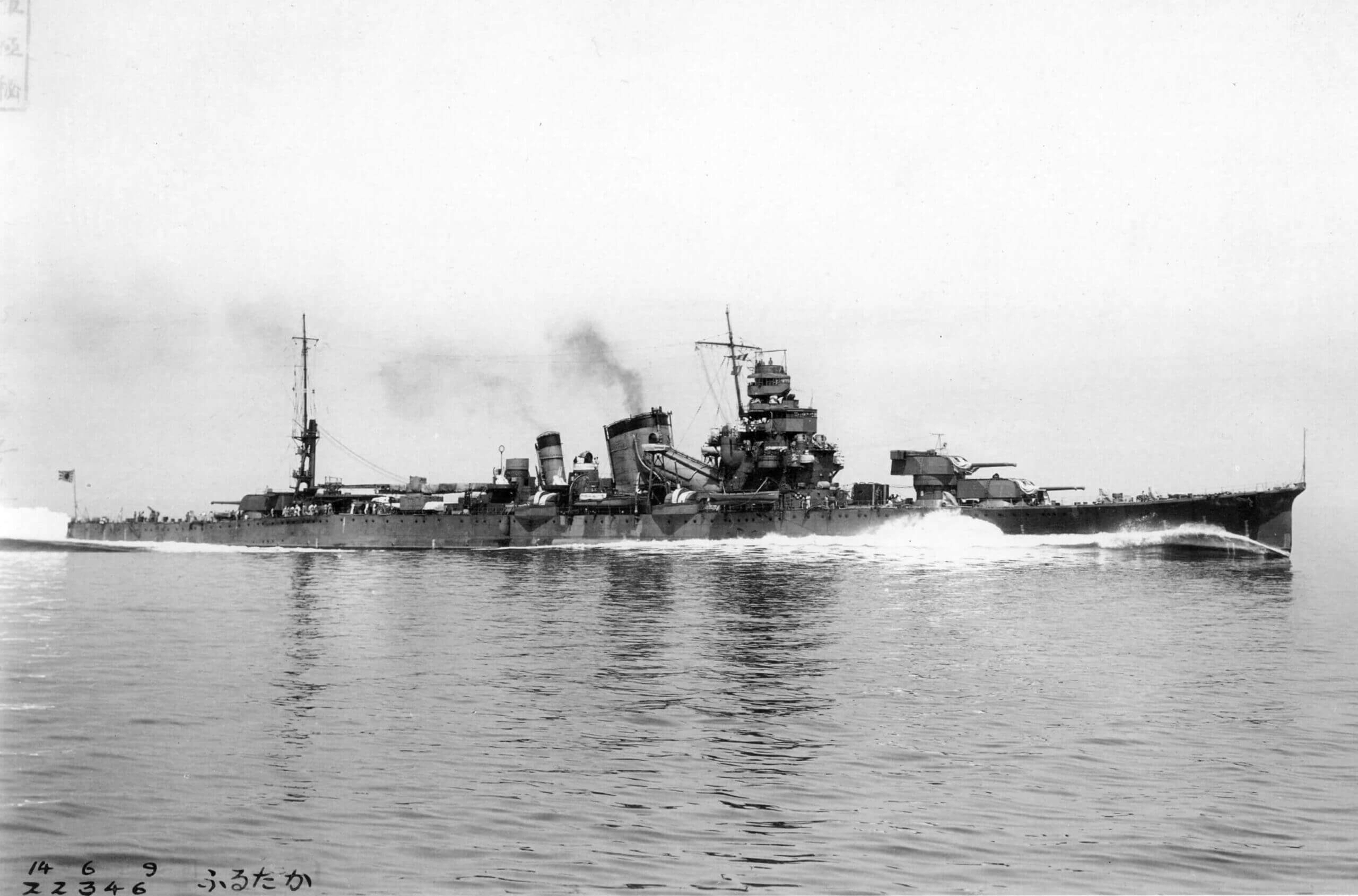 Heavy cruiser Furutaka on speed trials after reconstruction off Ugurujima (鵜来島). The main gun director and rangefinder tower on the top of the bridge had not yet been installed.